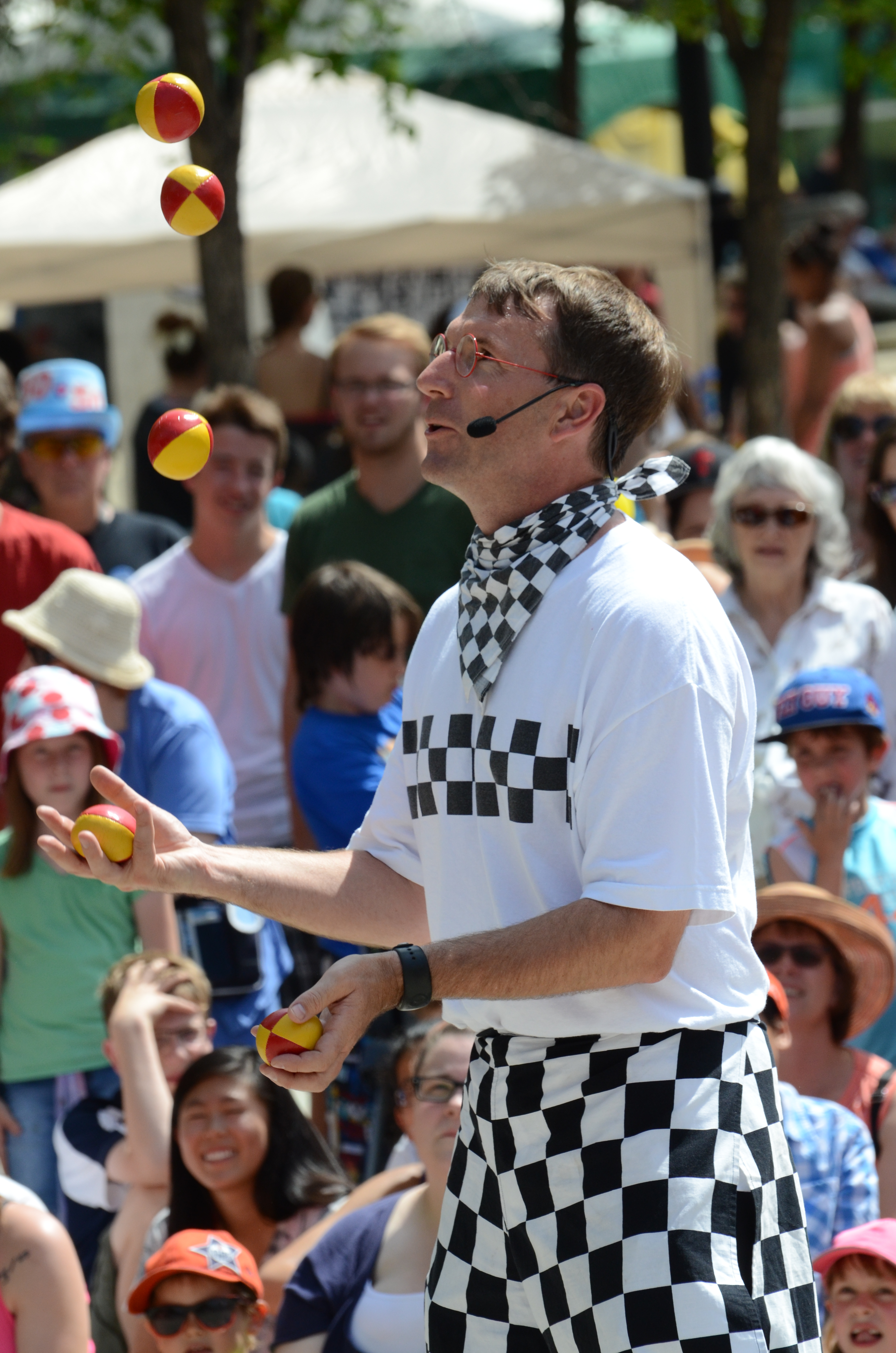 The Checkerboard Guy juggling at the Edmonton International Street Performers Festival, 2013.